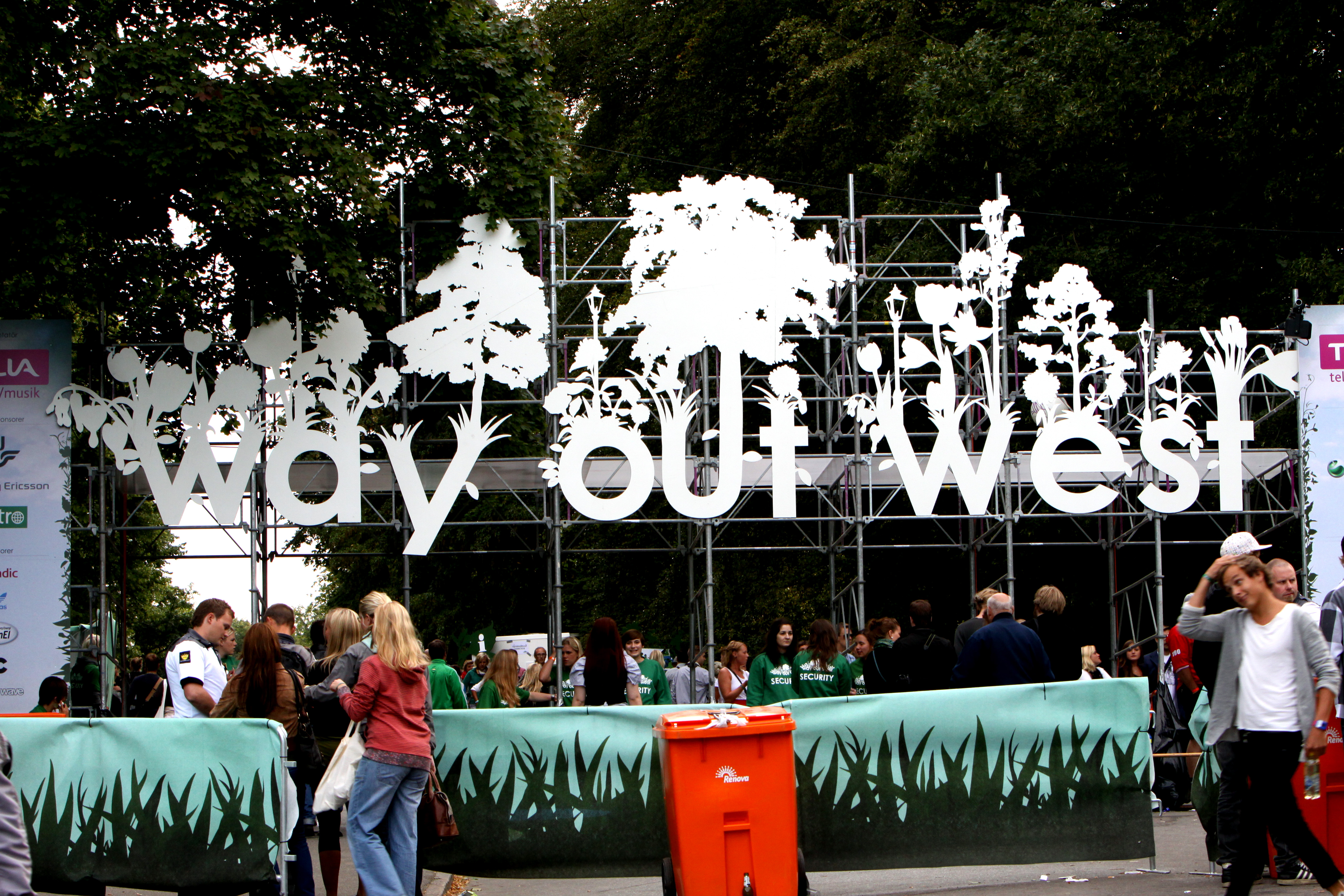 The entrance to the music festival "Way out west" arranged yearly in Gothenburg, Sweden